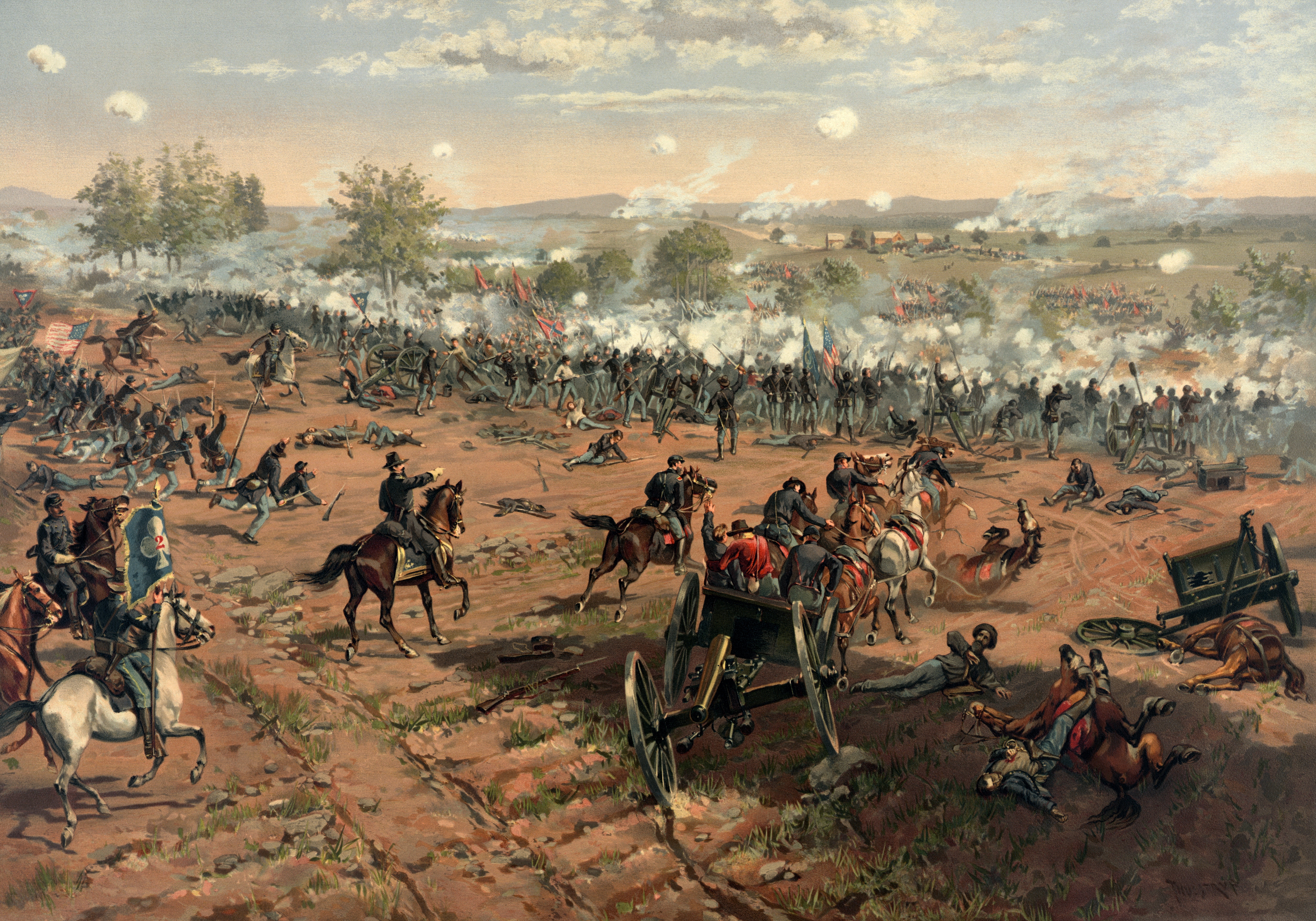 L. Prang & Co. print of the painting "Hancock at Gettysburg" by Thure de Thulstrup, showing Pickett's Charge. Restoration by Adam Cuerden. This is a retouched picture, which means that it has been digitally altered from its original version. Modifications: This image, like many Thulstrup prints, was done on vellum, with a characteristic dappling effect when the light of the LoC's scan reflects off the dimples from the hair pores on the right and left edges. This is a highly distracting effect that required a fair bit of cleanup. Also, levels adjustments, etc.. N.B. No other files: They're too large to upload. =/